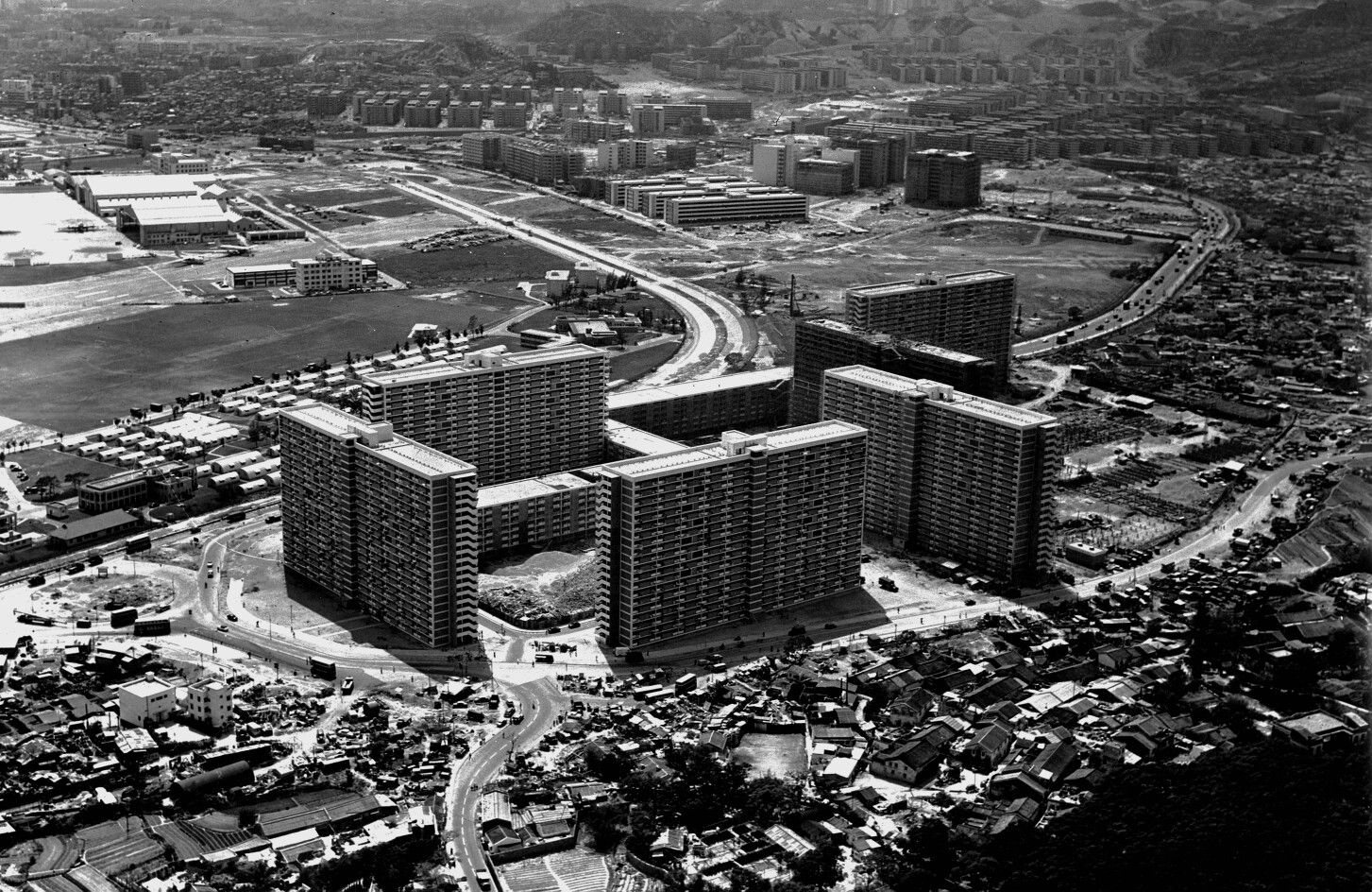 Historical image of Choi Hung Estate in 1963, one year upon its full completion.The area was formerly belong to the Sha Ti Uen village, one of the thirteen large villages of Kowloon.The estate also later inspired the naming of a nearby MTR station, Choi Hung station.